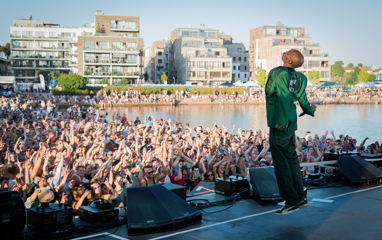 Faithless live at Palmesus 2013